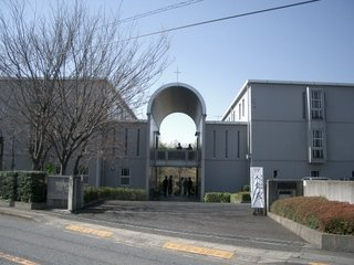 Japan Bible Seminary front entrance